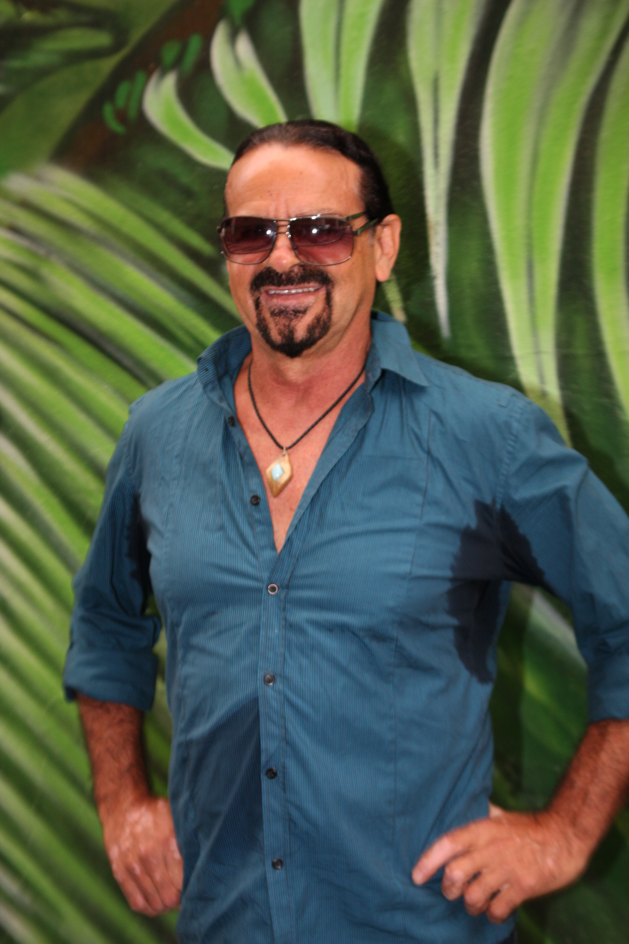 Bunna Lawrie, at the National Multicultu​ral Festival 2012 (Canberra, Australia - 10th February 2012)